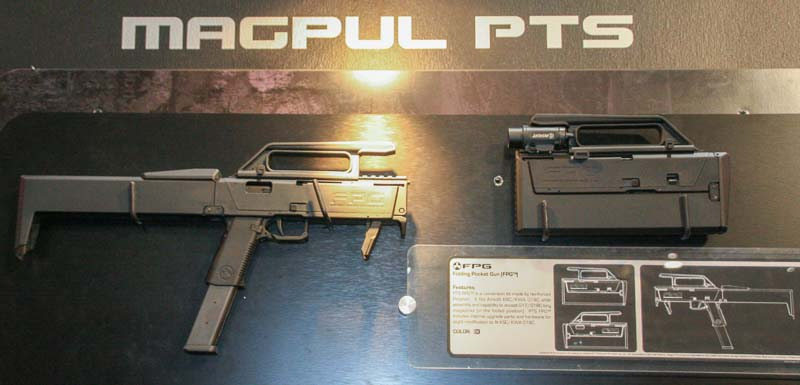 Image via This is a photo of a prototype folding submachine gun made by Magpul. The PTS was never commercially produced. The 2010 SHOT Show was held in Las Vegas, NV. The event is a trade show held annually to support the gun industry and is sponsored by the National Shooting Sports Foundation (NSSF). It is the largest gun show in the United States.